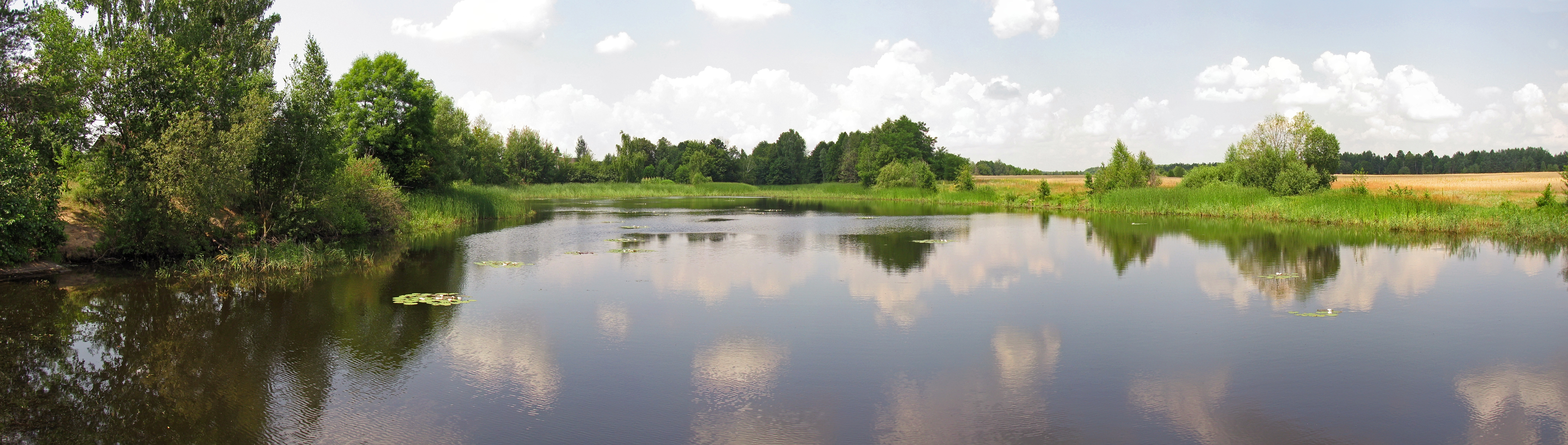 Став у Хмільній на річці Мислин